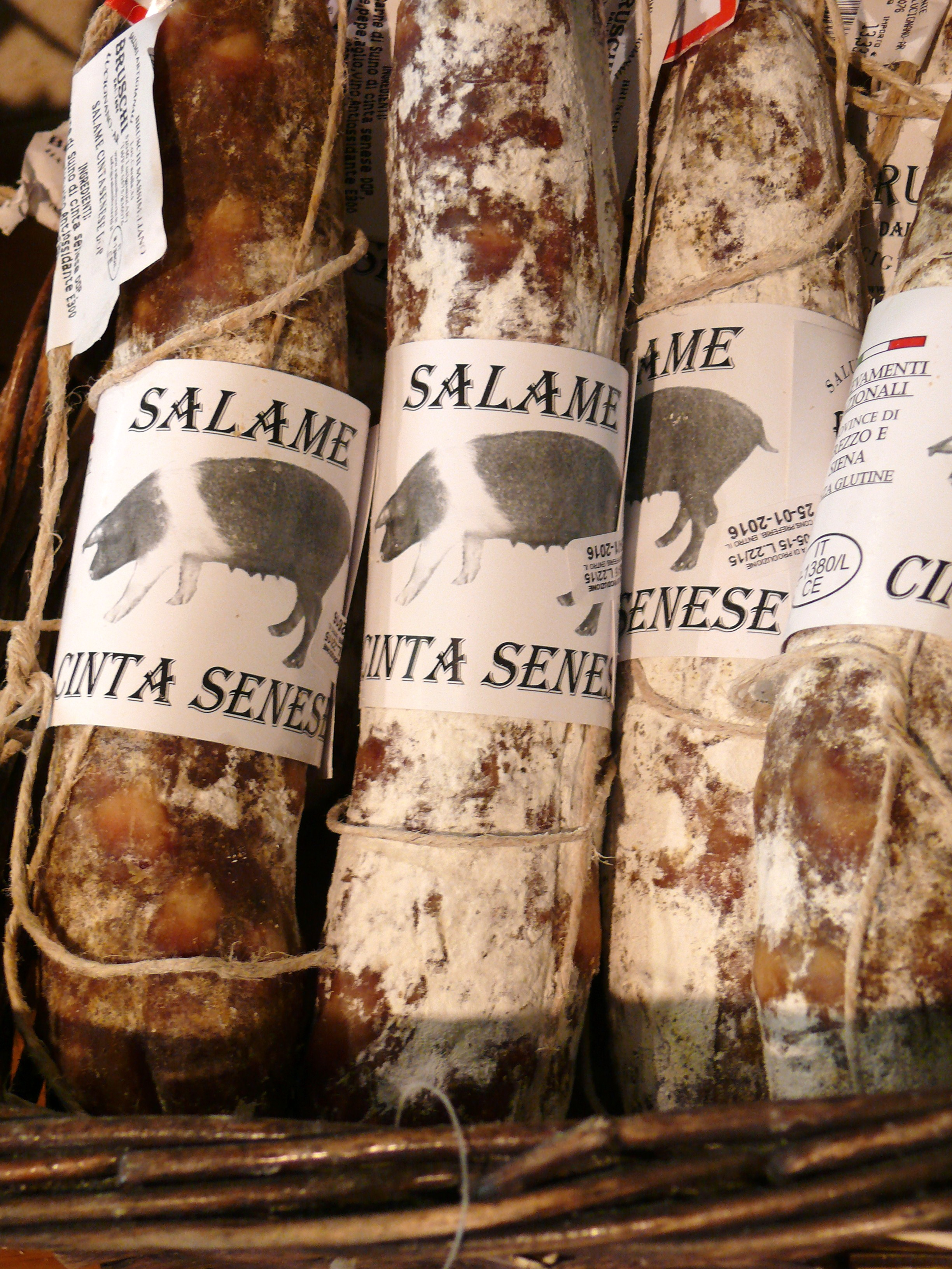 salami of pork (cinta senese) made in Siena, Italy